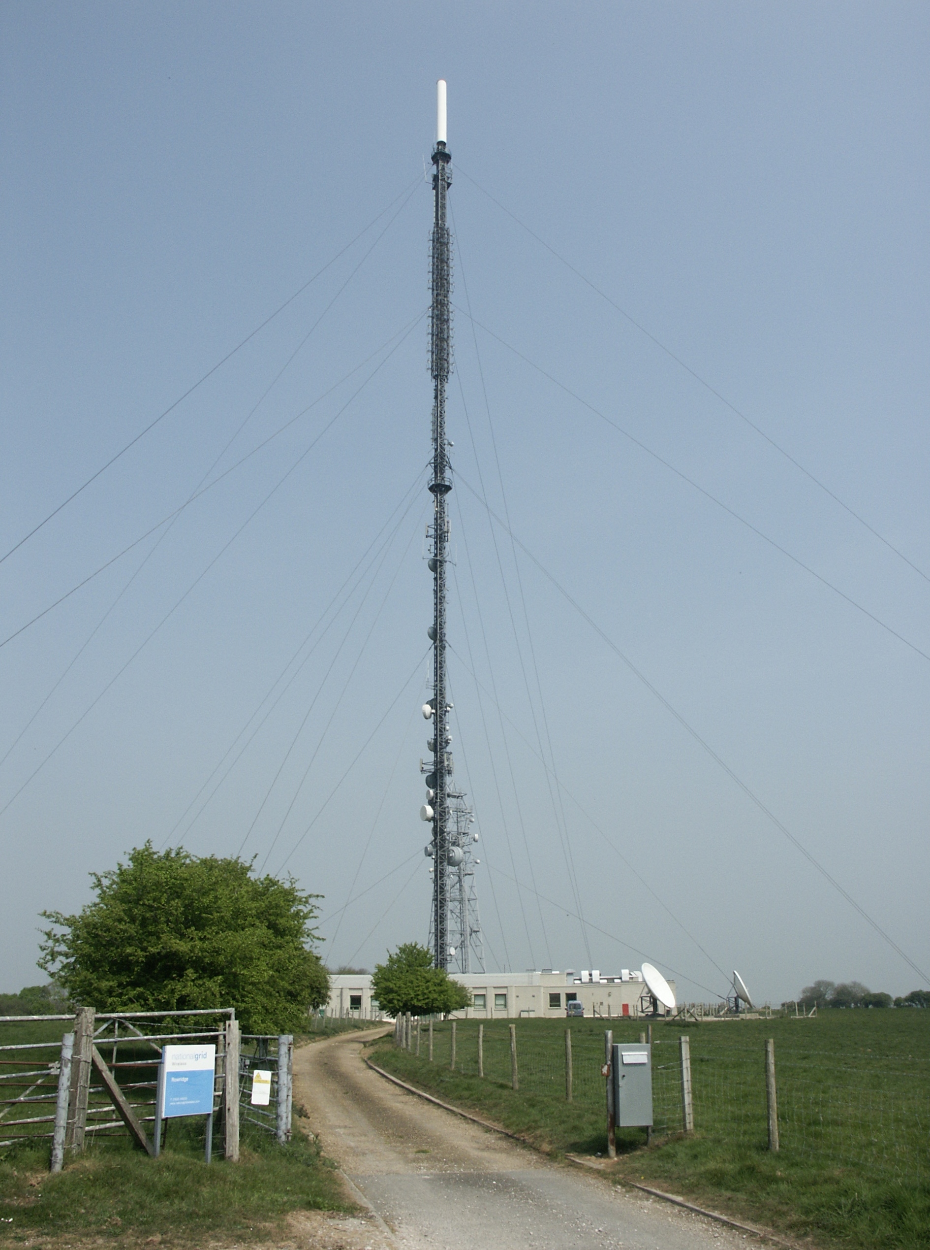 Rowridge transmitting station and mast viewed from the entrance gate.